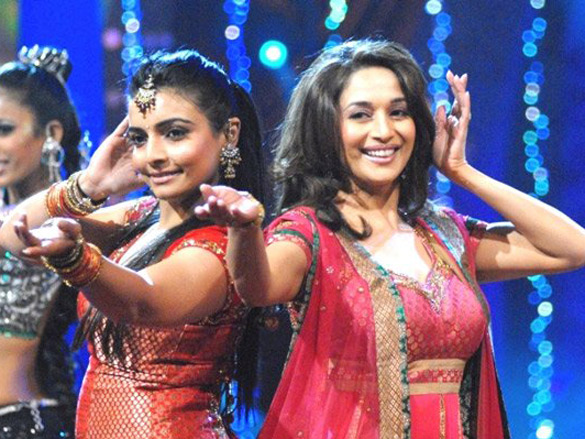 Choreographer Vaibhavi Merchant and actress Madhuri Dixit dance on the sets of Nach Baliye 3. Merchant was the permanent judge of the season and Dixit was the guest judge of episode 10.